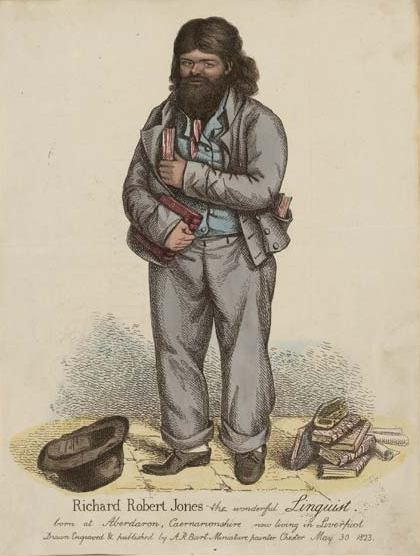 Dic Aberdaron